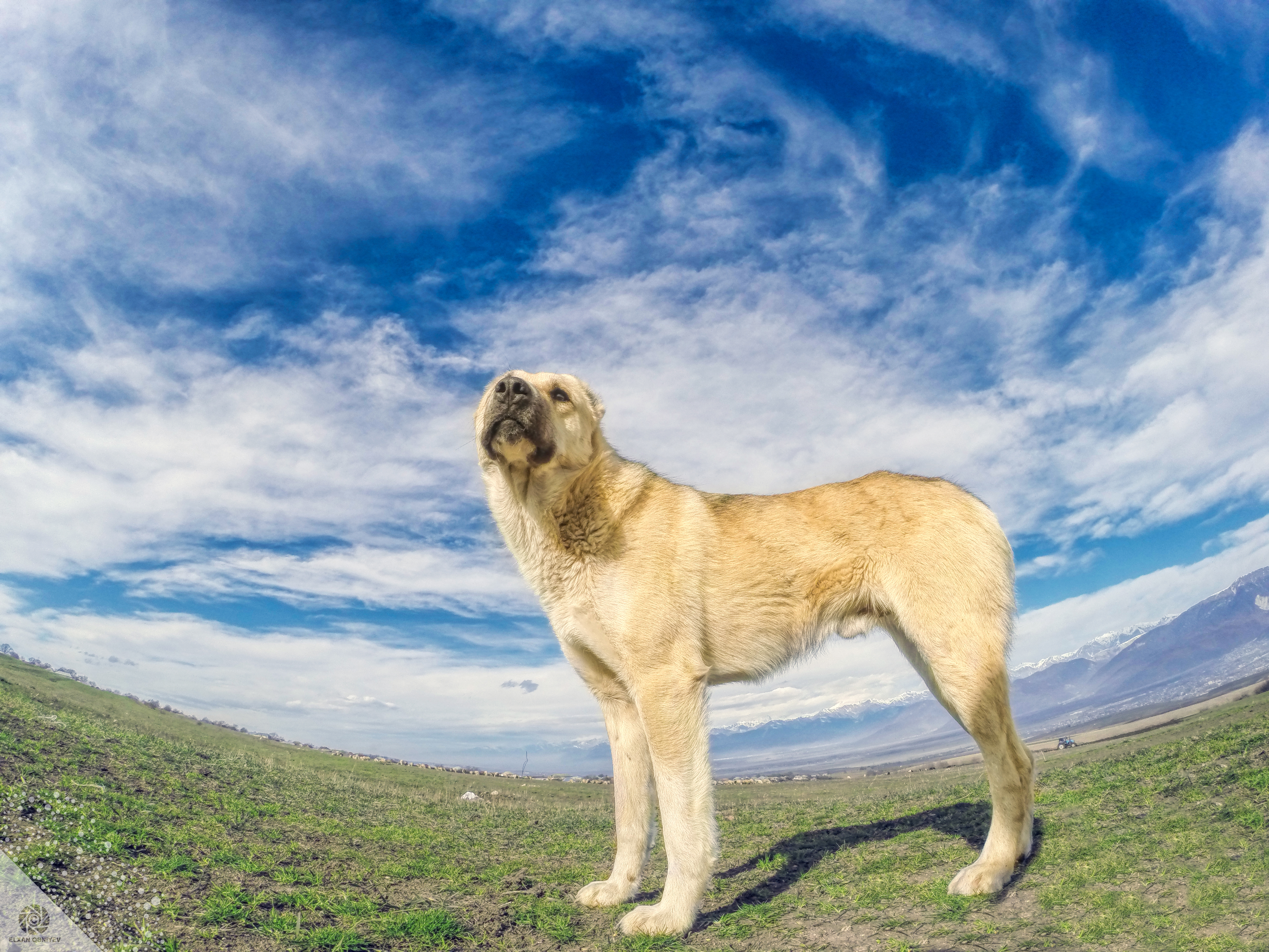 Sheepdog, Gampr dog in Azerbaijan